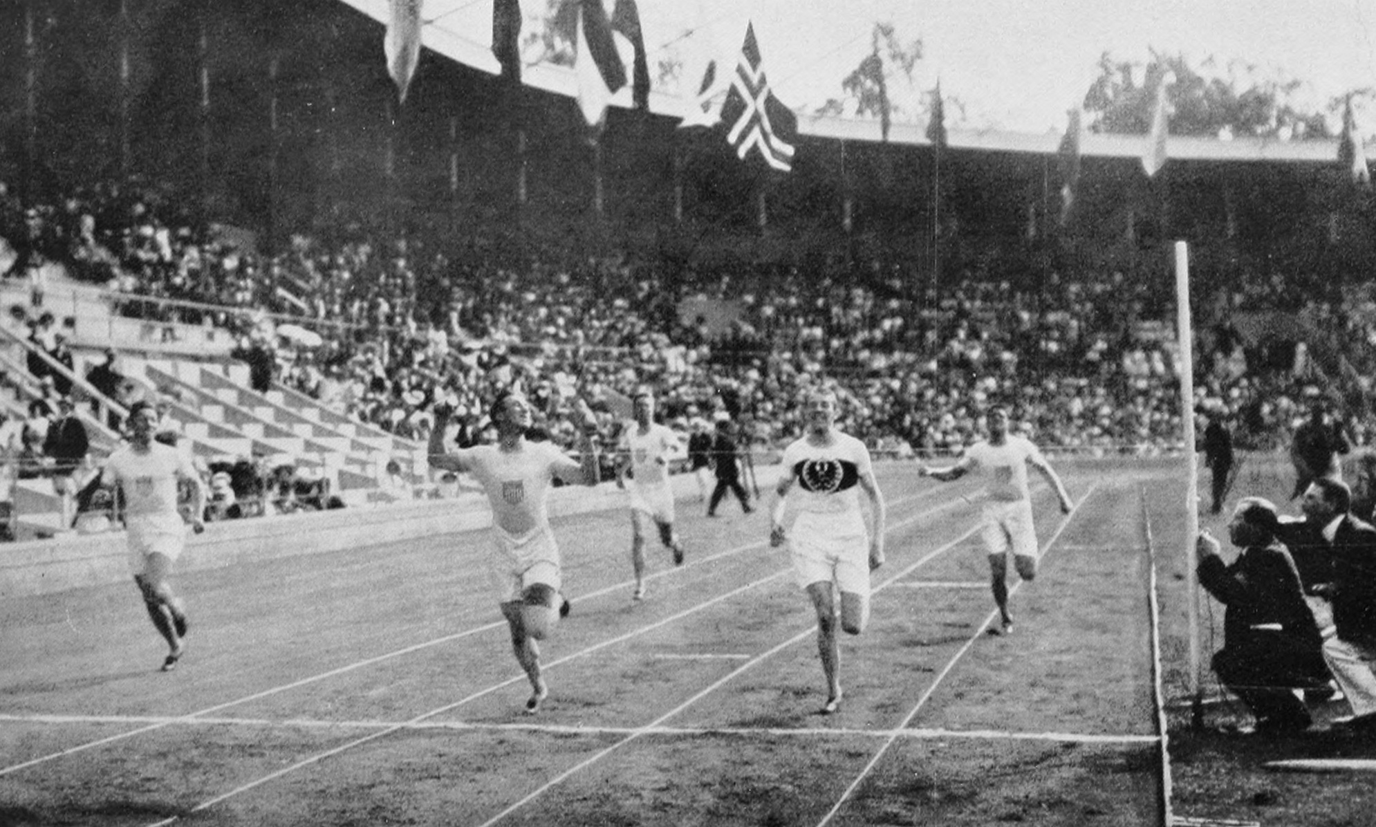 The finish of the men's 400 metre final at the 1912 Summer Olympics. Charles Reidpath (left) beats Hanns Braun. Charles Reidpath (USA), Hanns Braun (GER), Edward Lindberg (USA), Ted Meredith (USA), Carroll Haff (USA)